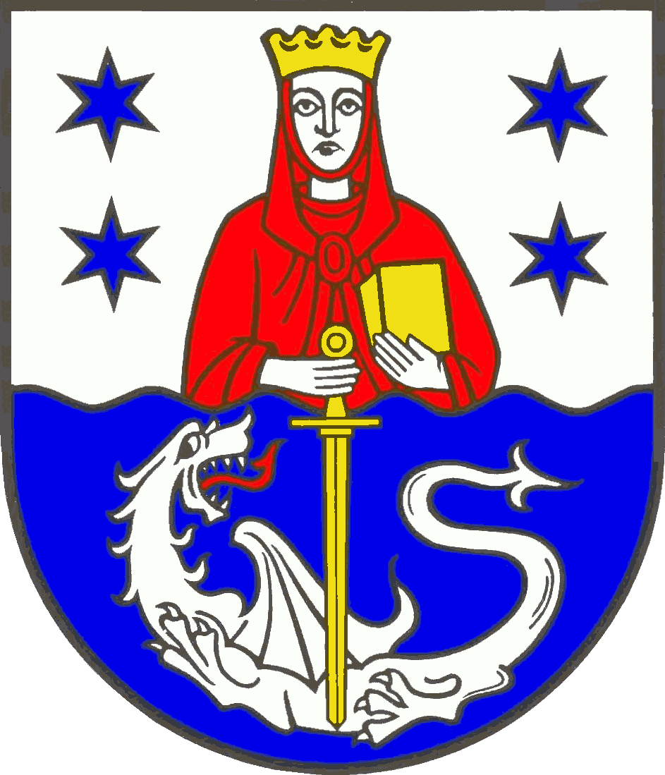 Coat of arms of the municipality Sankt Margarethen in Schleswig-Holstein, Germany.